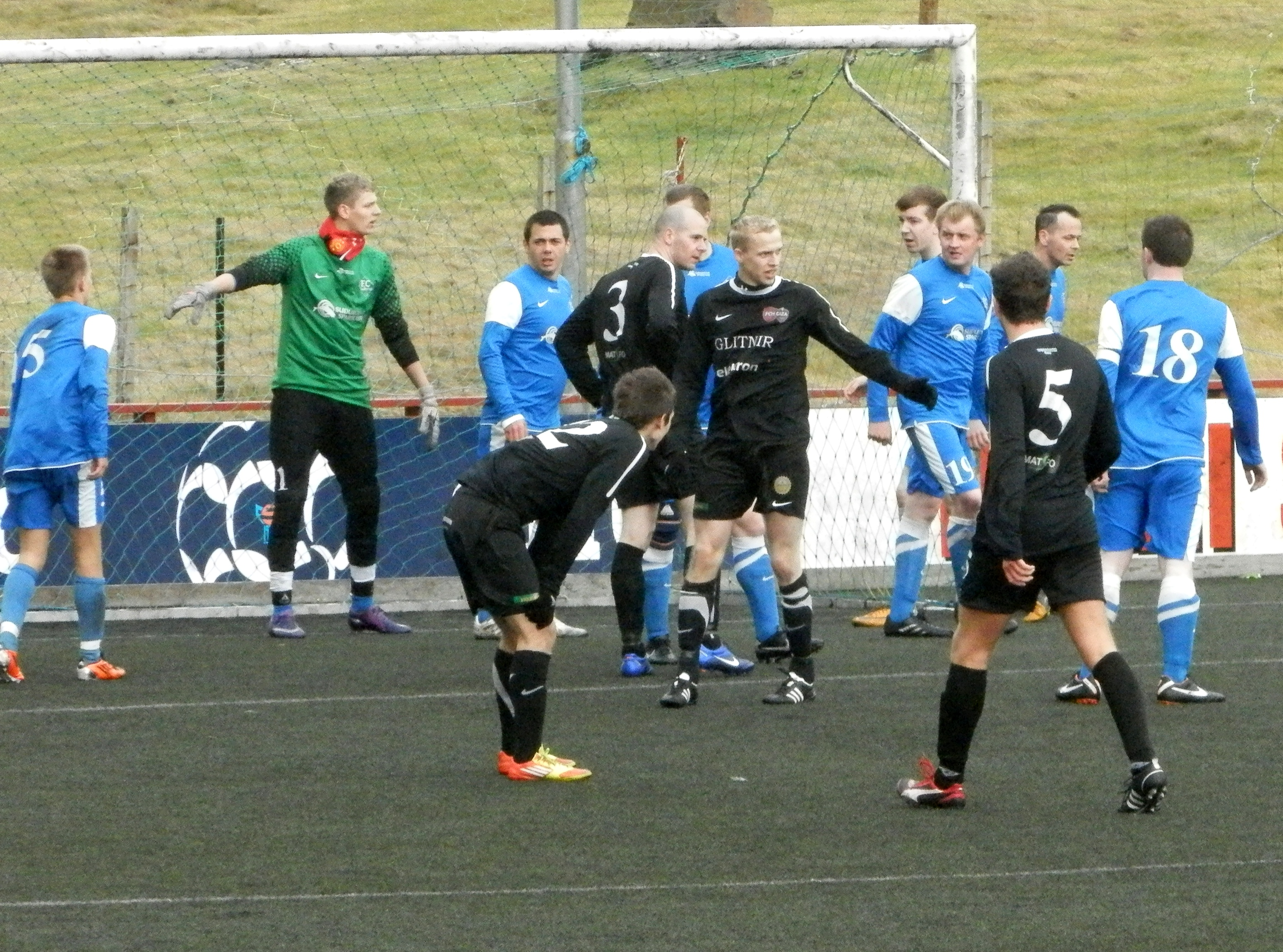 Football match in the men's third league of the Faroe Islands, called 2. deild between FC Suðuroy and Giza/Hoyvík. Before 2012 Giza/Hoyvík were two seperate clubs: FF Giza and FC Hoyvík, but in 2012 they merged into Giza/Hoyvík. They play their home matches in Gundadalur in Tórshavn (Niðari vøllur, the lower field). Giza/Hoyvík ended as number three in the division, they were not promoted to 1. deild, they had the same score as TB Tvøroyri, but TB had better goal score and got promoted.